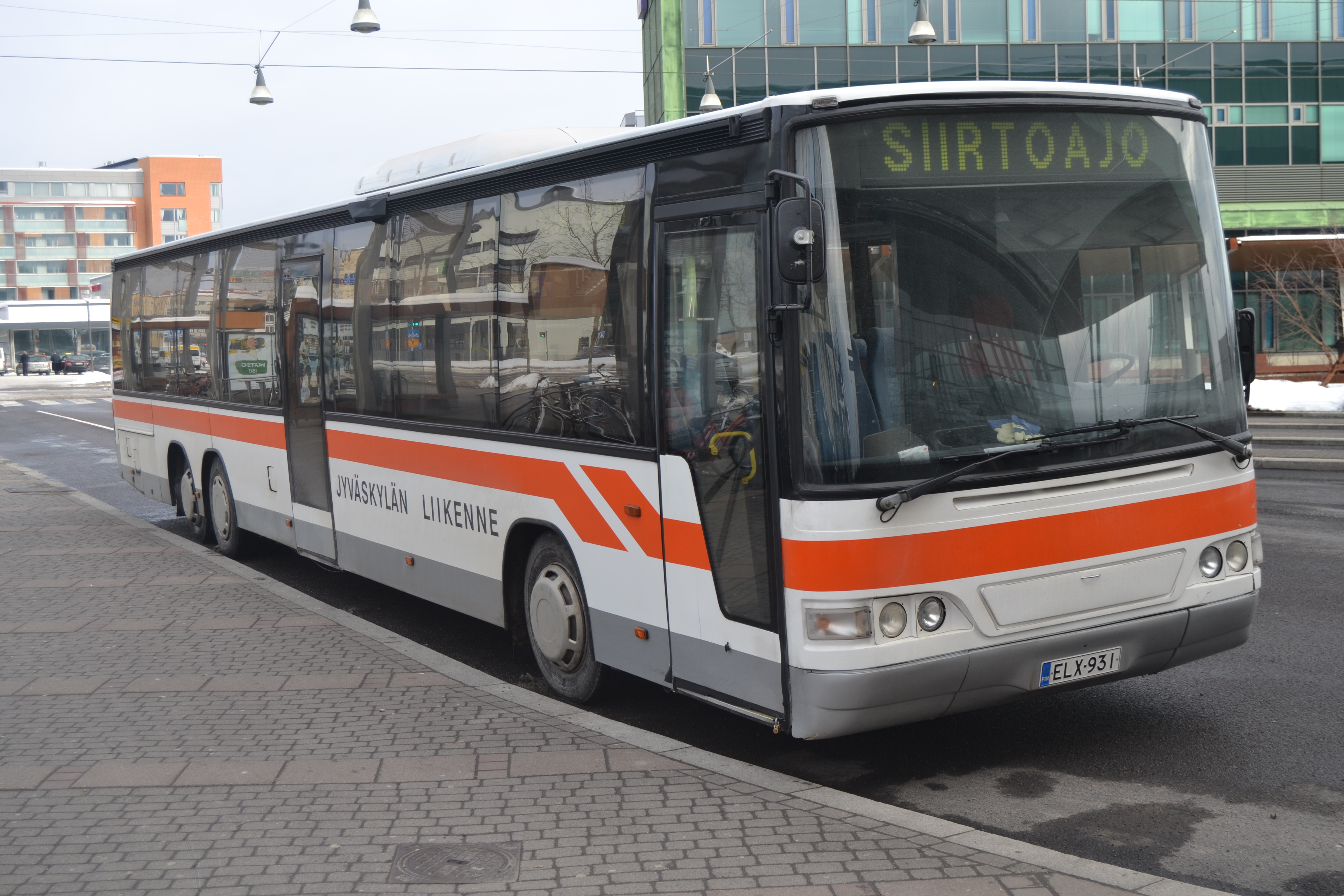 Jyväskylän Liikenne Carrus Vega L / B10B LE 6x2 bus (reg. ELX-931) in Jyväskylä, Finland.